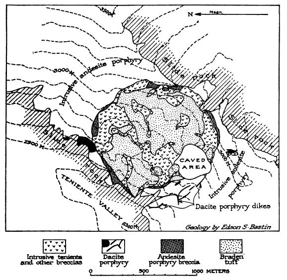 Braden Mine geologic map